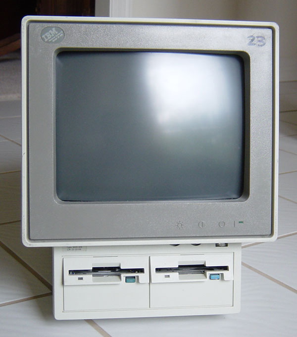 IBM Personal System/2 Model 25. Photo by uploader.